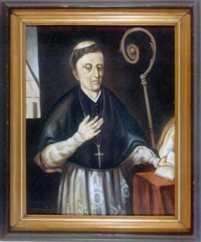 A portrait of bishop Domingo de Salazar (1512 - 1594). Domingo de Salazar was bishop of Manila from 1581 untill his death in 1594